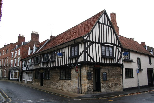 The Blue Pig